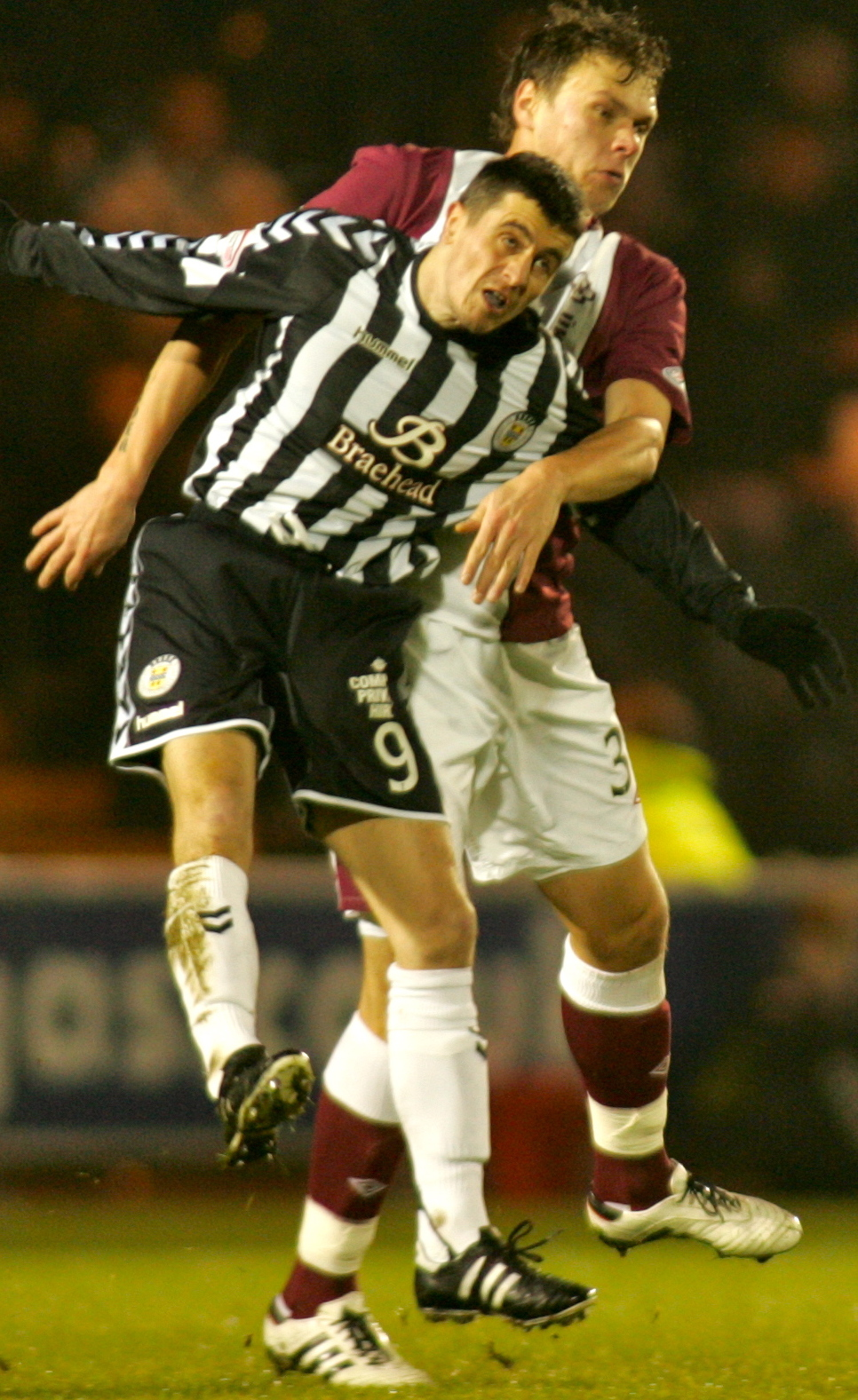 Adrian Mrowiec playing for hearts. St Mirren vs Hearts